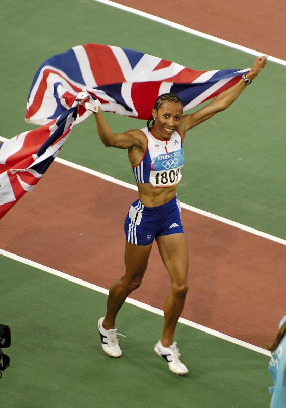 Kelly on her lap of honour after winning the 1500m final